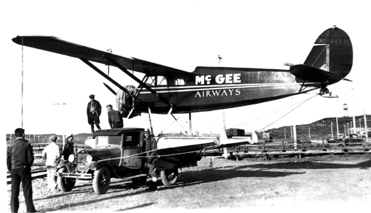 A McGee Airways Stinson airplane has had pontoons installed & is being transported by pick-up truck to Alaska Railroad crane for launching into Ship Creek in Anchorage, Alaska.